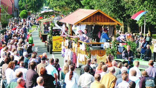 harvest move in Achternmeer